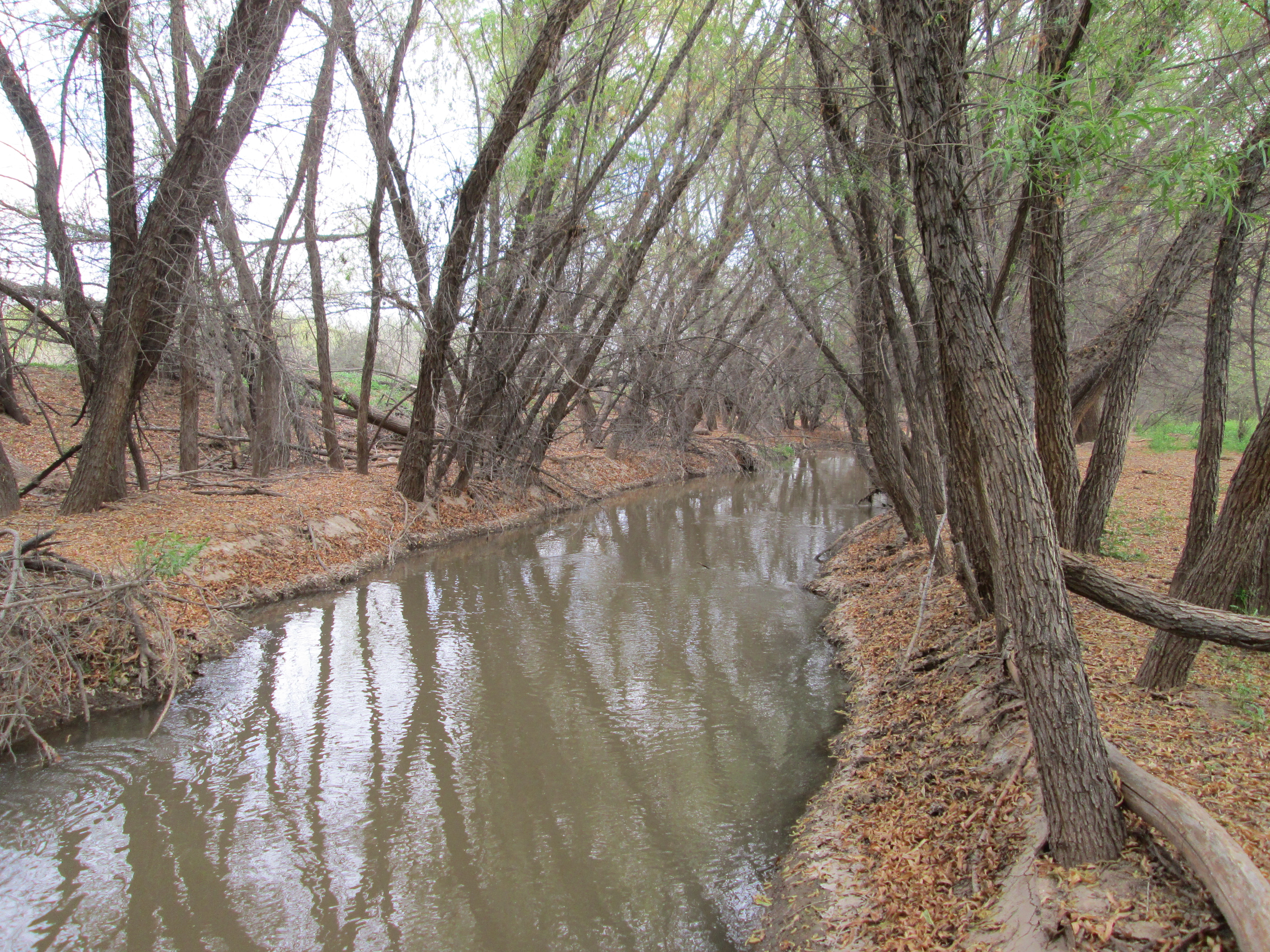 The Santa Cruz River (looking upstream) near Red Rock, Pinal County, Arizona, on February 23, 2014.